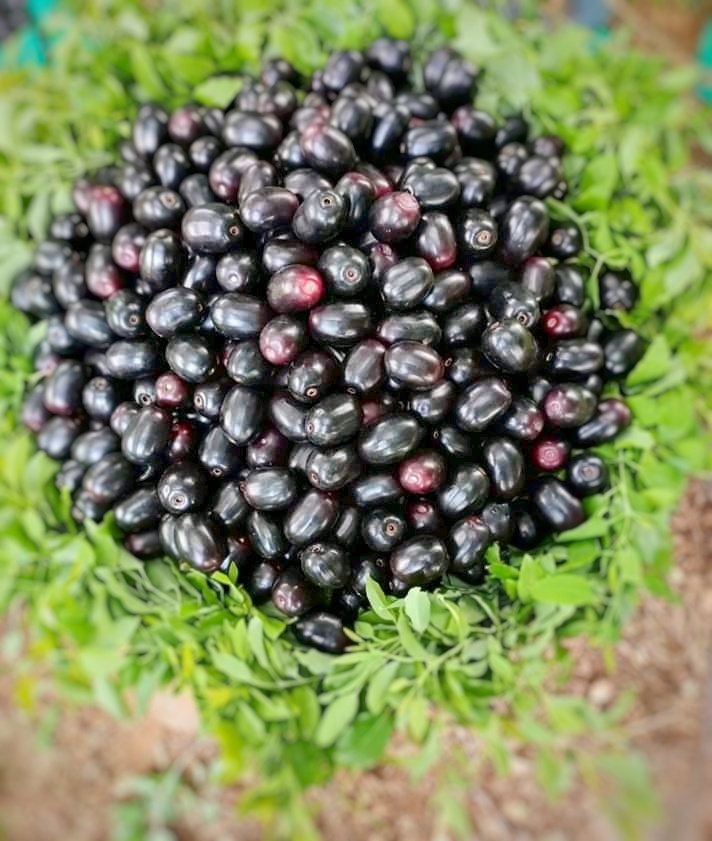 నేరెడు కాయలు